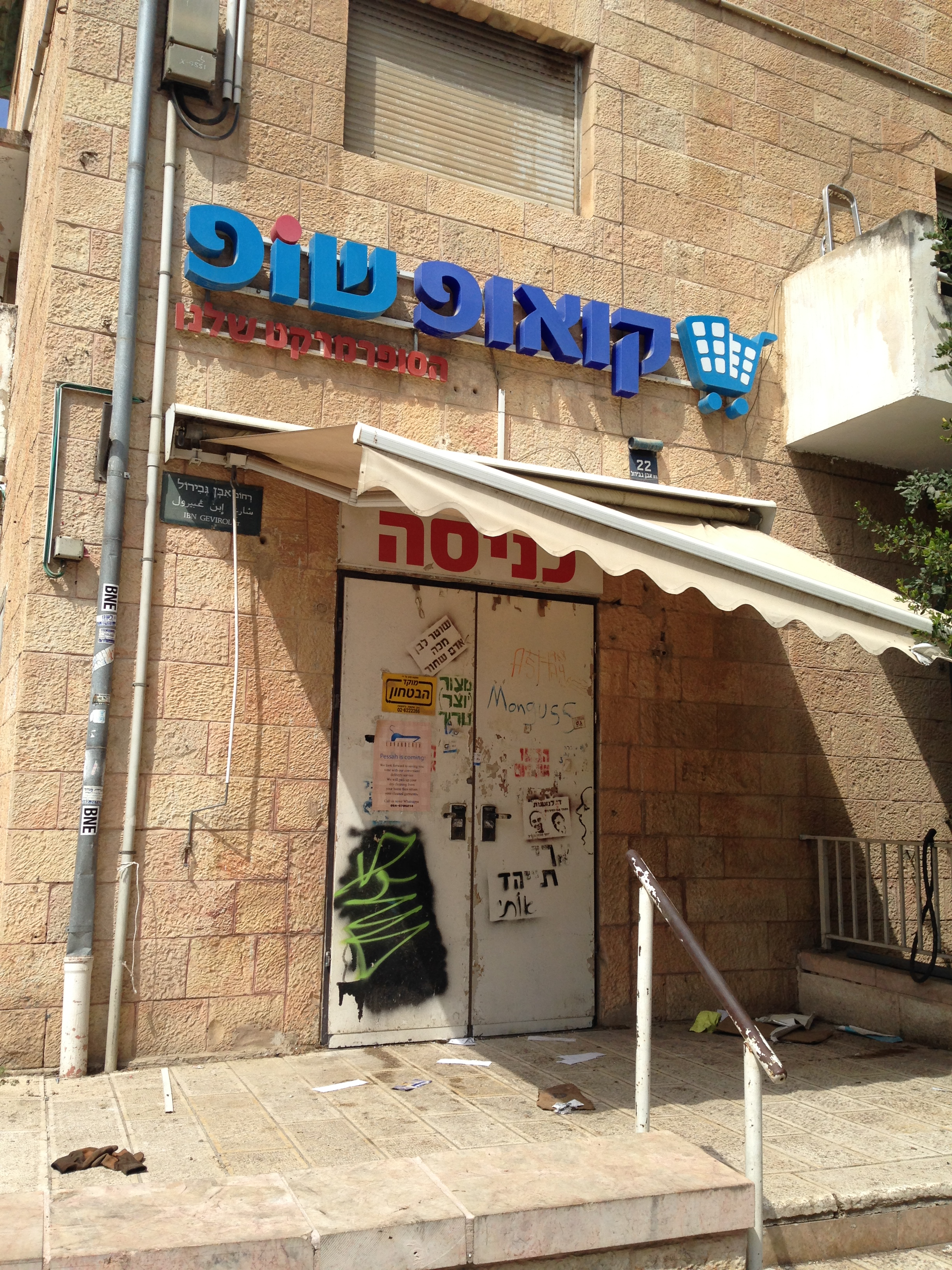 Jerusalem, 22 Ibn Gabirol (Gevirol) street – a closed branch of Coop Israel supermarket in Jerusalem.